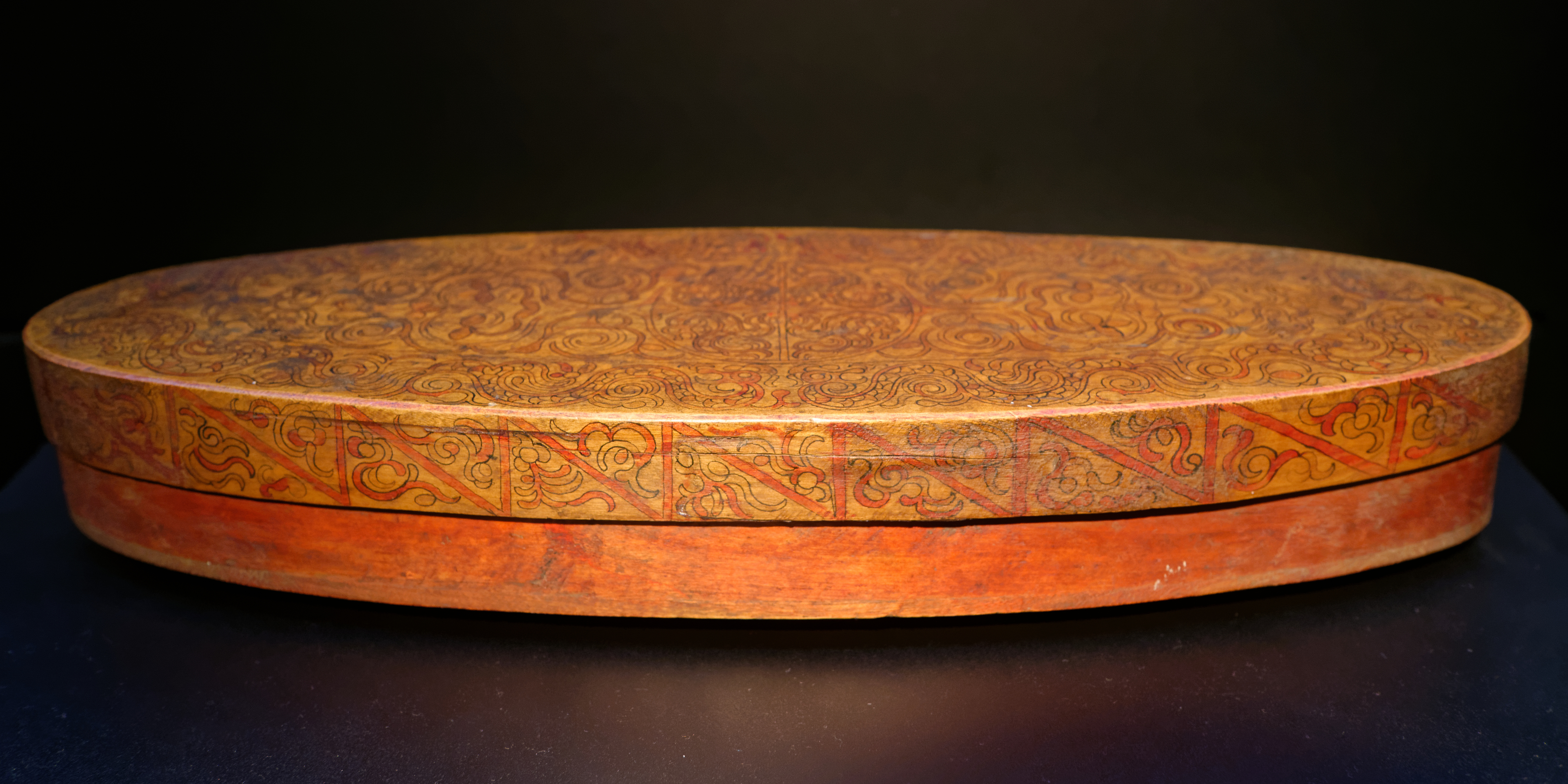 Box of the Nanai people, Amur River basin, Federation of Russia.